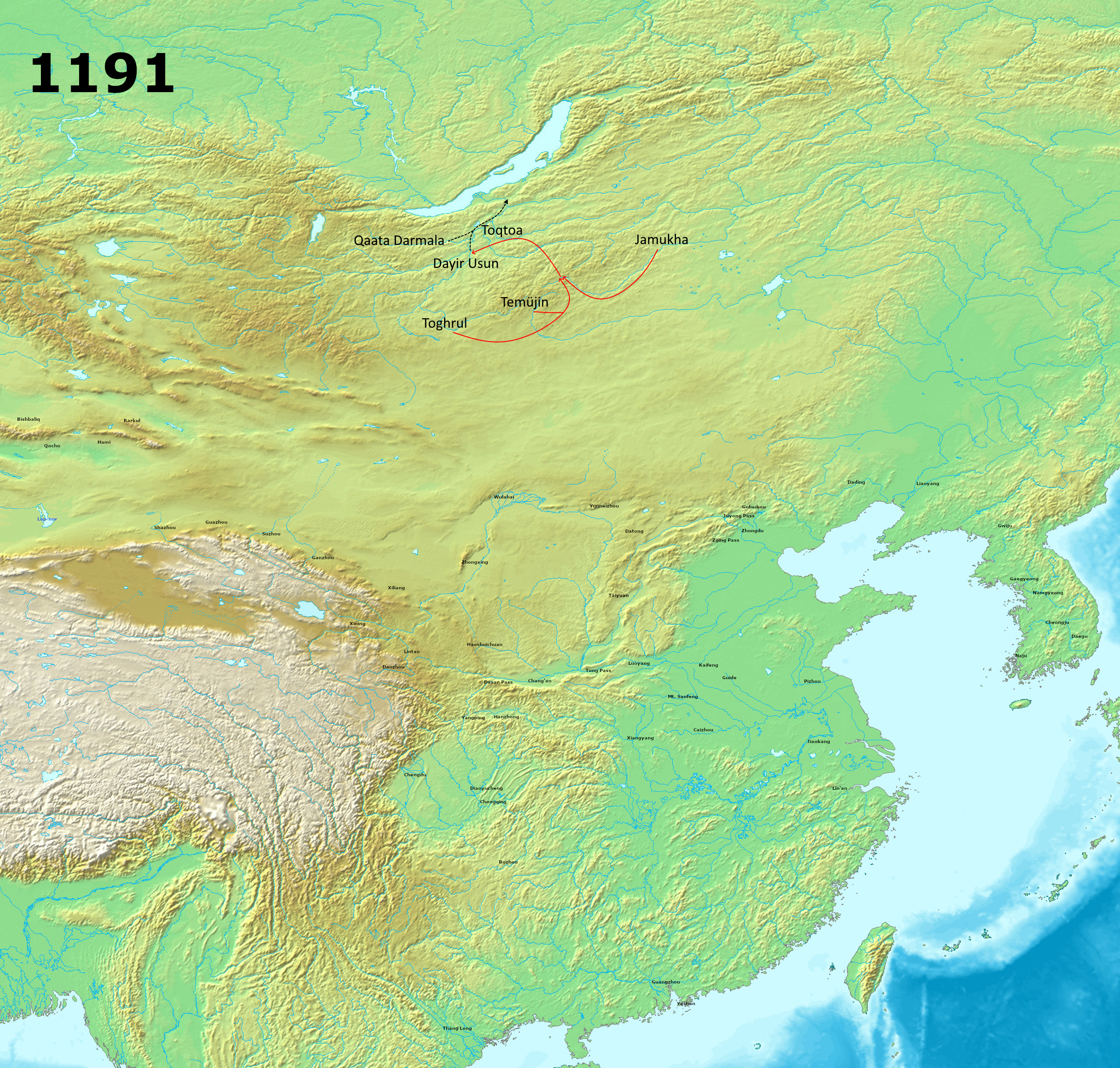 1191 Mongol War